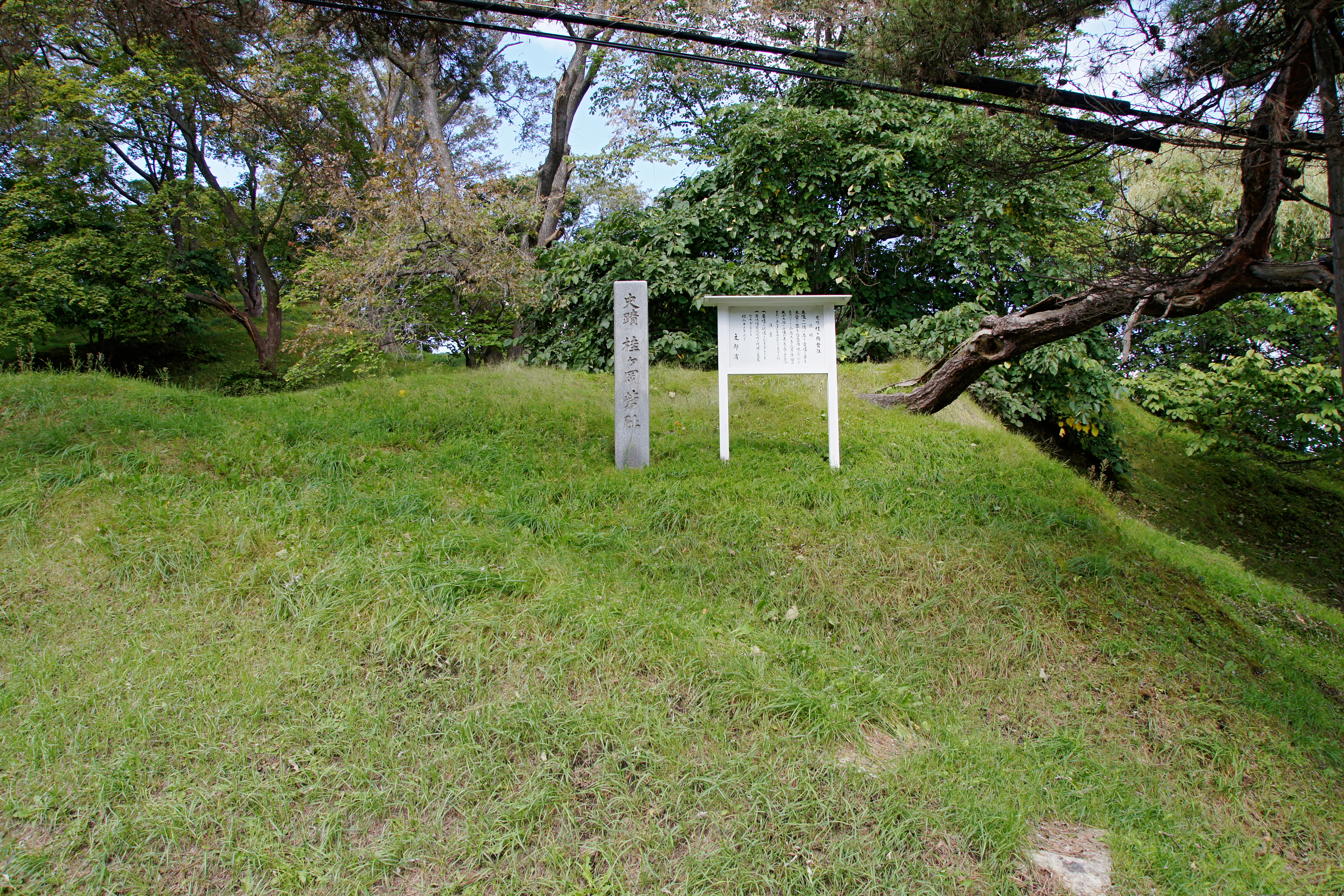 Katsuragaoka chashi-ato in Abashiri, Hokkaido prefecture, Japan